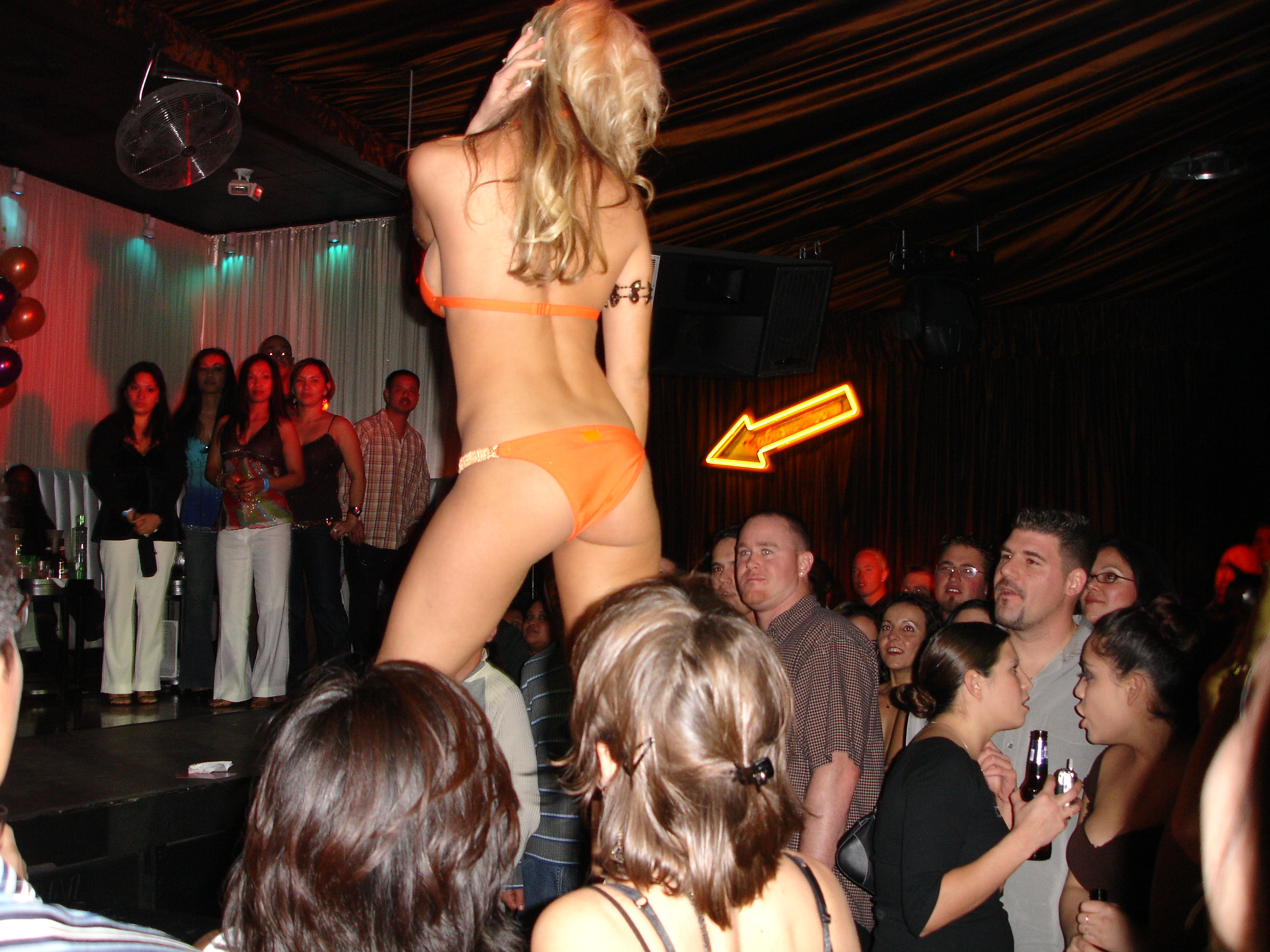 Bikini dancer (pay attention to the arrow) Sacramento, California.DSC00118